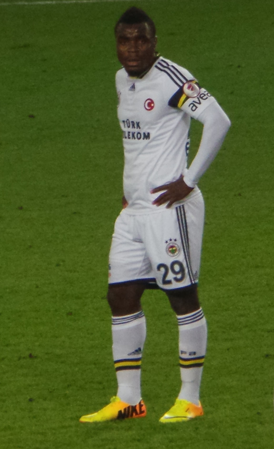 Emmanuel Emenike with F.B.